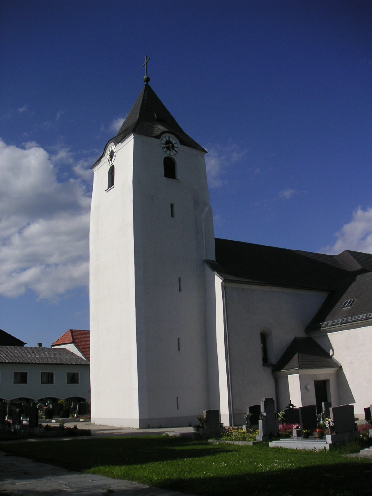 St. Martins church in Grafenschlag, Lower Austria south of Zwettl